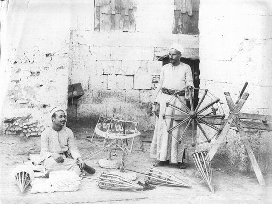 Egyptian silk weavers, AD 1880.